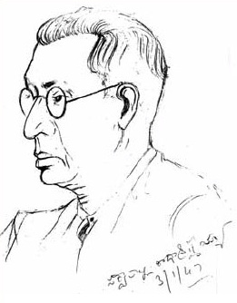 Potrait of Mr. President by Bujjai (son of famous telugu poet Devulapalli Krishna Sastri) and signed by Radhakrishnan himself in telugu. Year : 1947[1]